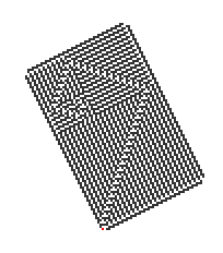 The turmite specified as {1, 8, 1}, {1, 8, 1 , 1, 2, 1}, {0, 1, 0 } shown at 10211 timesteps. This string is a curly-bracketed table of n_states rows and n_colors columns, where each entry is a triple of integers. The elements of each triple are: a) new color of the square, b) direction(s) for the turmite to turn: 1=noturn, 2=right, 4=u-turn, 8=left, c) new internal state of the turmite. For example, the triple {1,2,1} says: a) set the color of the square to 1, b) turn right (2), c) adopt state 1 and move forward one square.